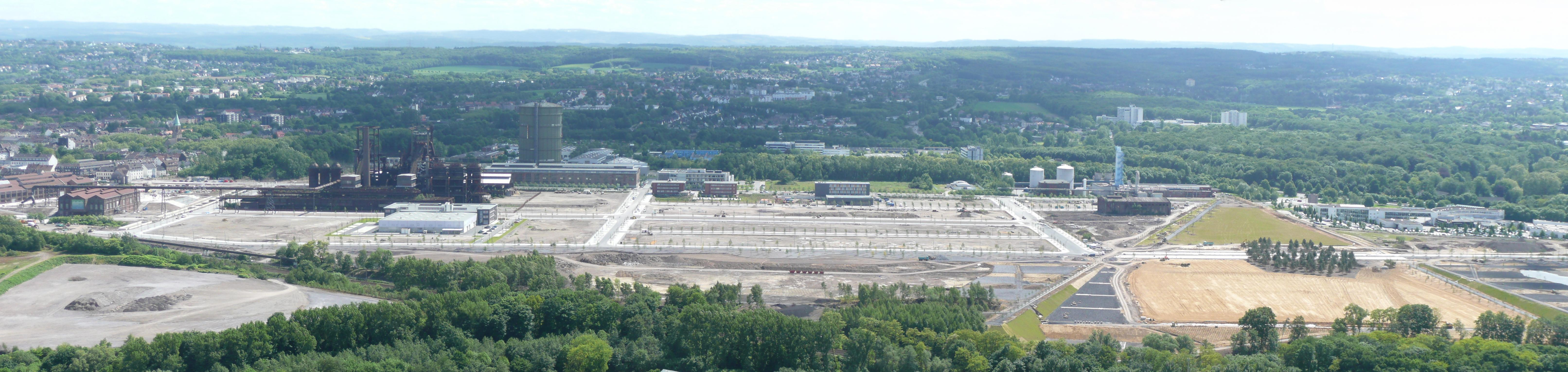 Brownfields Phoenix West in Dortmund